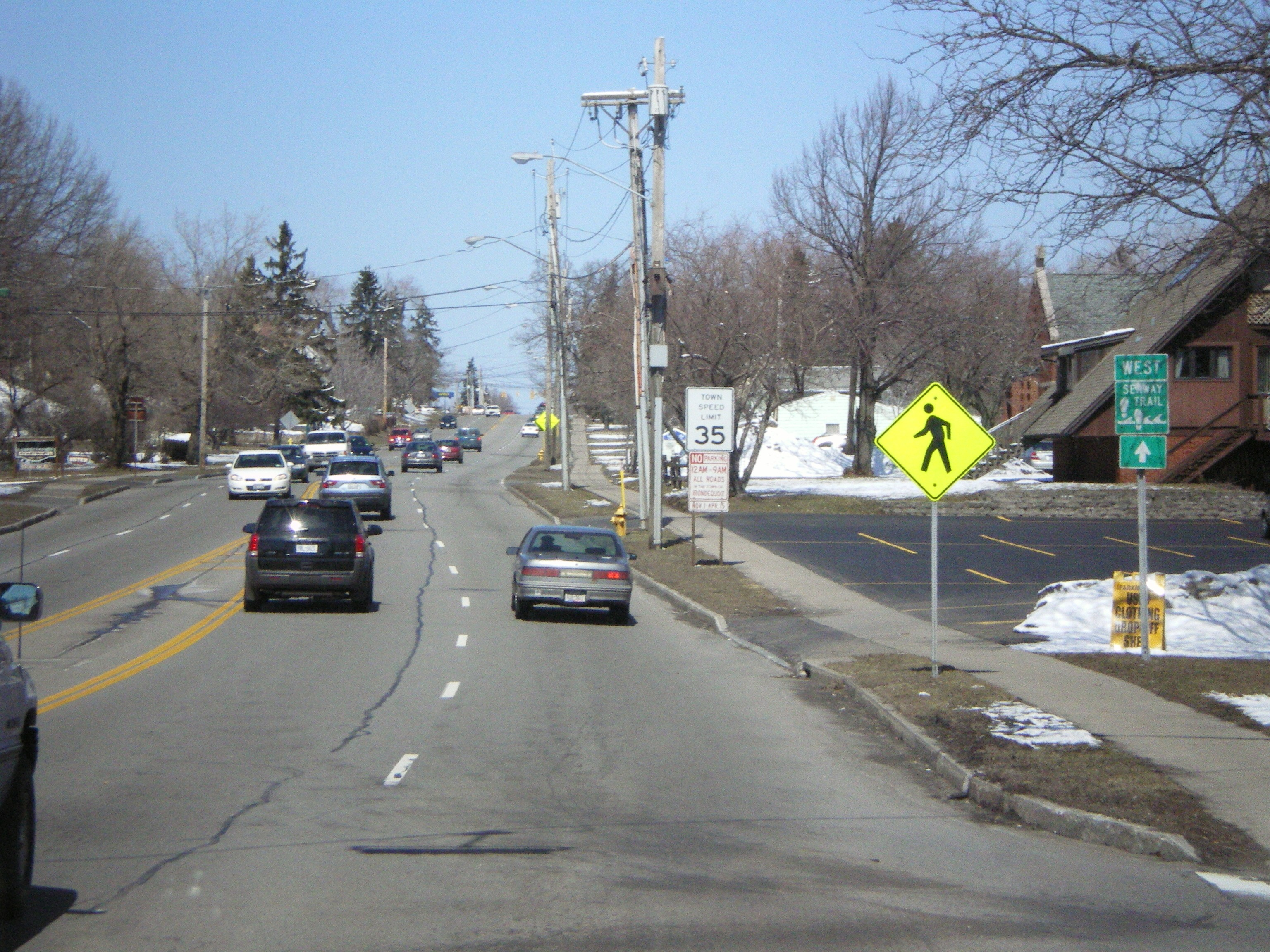 Northbound on Culver Road (former US 104) just north of NY 104 in Rochester, New York.